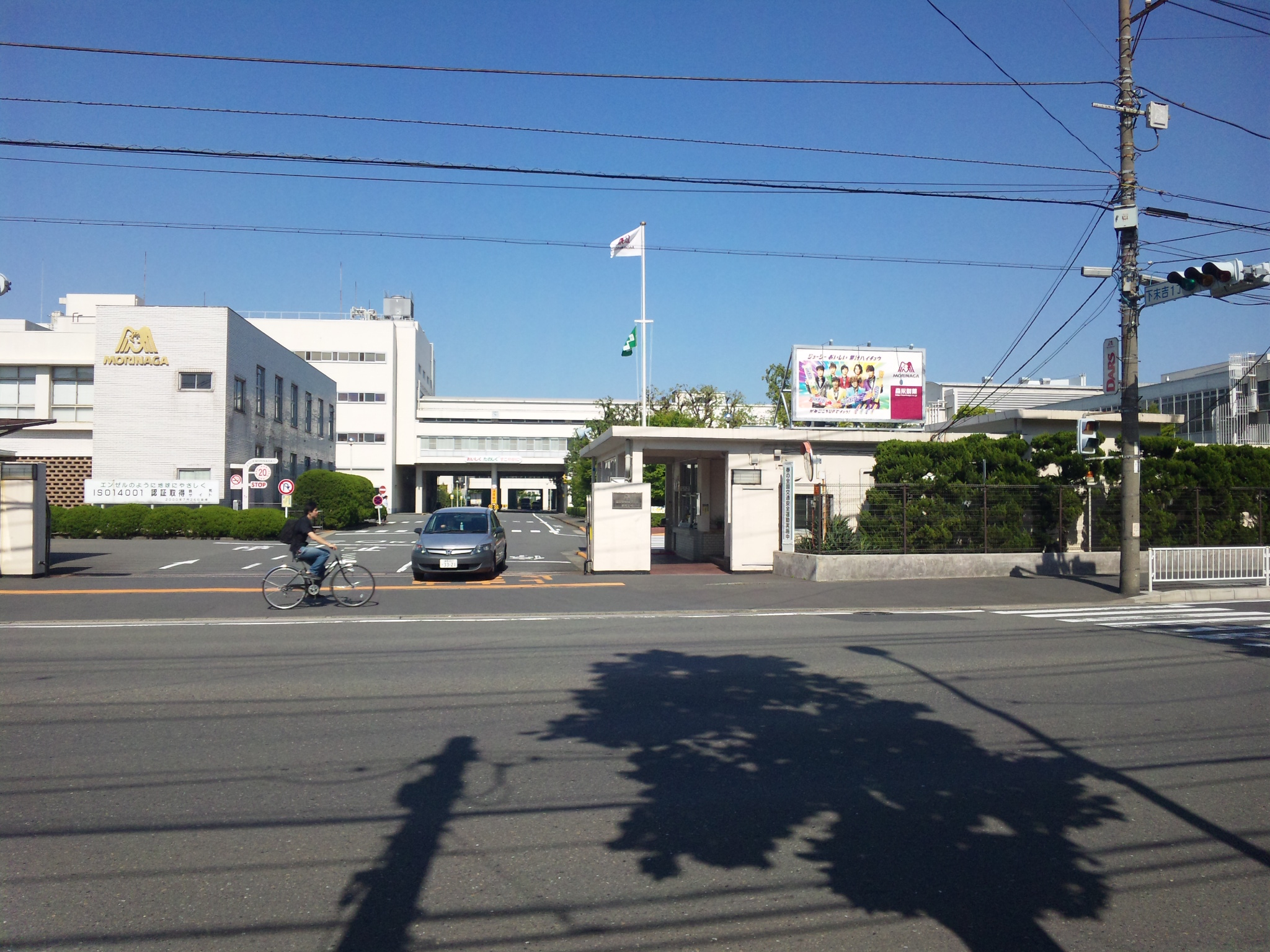 morinaga yokohama